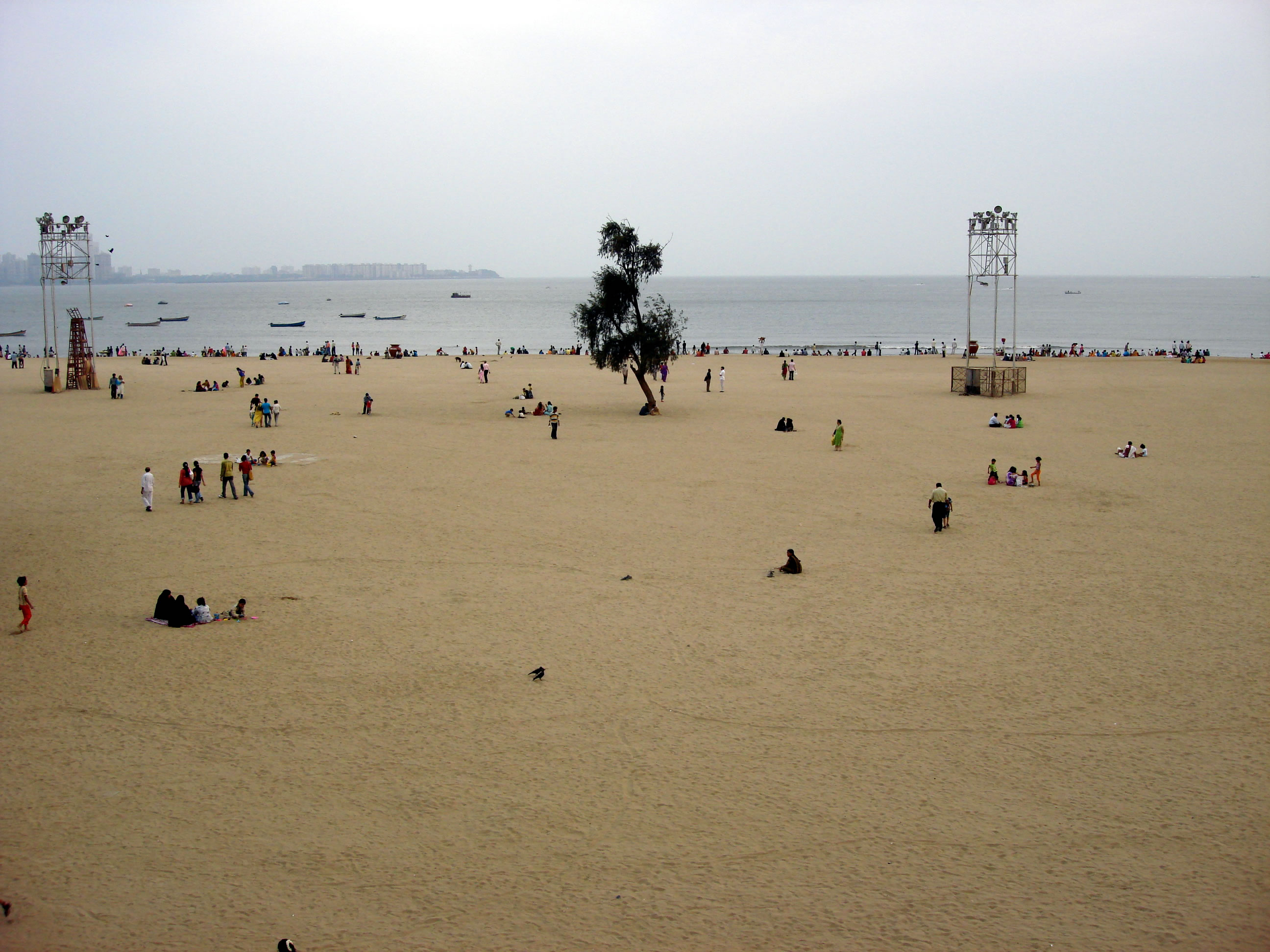 Chowpatti is a small public beach adjoining Marine Drive in South Mumbai, India. The beach is famous for Ganesh Chaturthi celebrations when hundreds of people from all over Mumbai come to immerse the idols of Lord Ganapati in Arabian Sea.